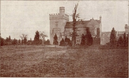 Ladbrooke Park, Tanworth-in-Arden, Warwickshire in 1908, published with prospectus for the new golf club established on the estate in that year. In 1908 residence of Oscar Bowen (1865-1916), born in Manchester and formerly of Haseley Hall, near Warwick, Chairman of the North Warwickshire Railway Company. The house survives in 2020 as two separate dwellings, Ladbrooke Park East and West.